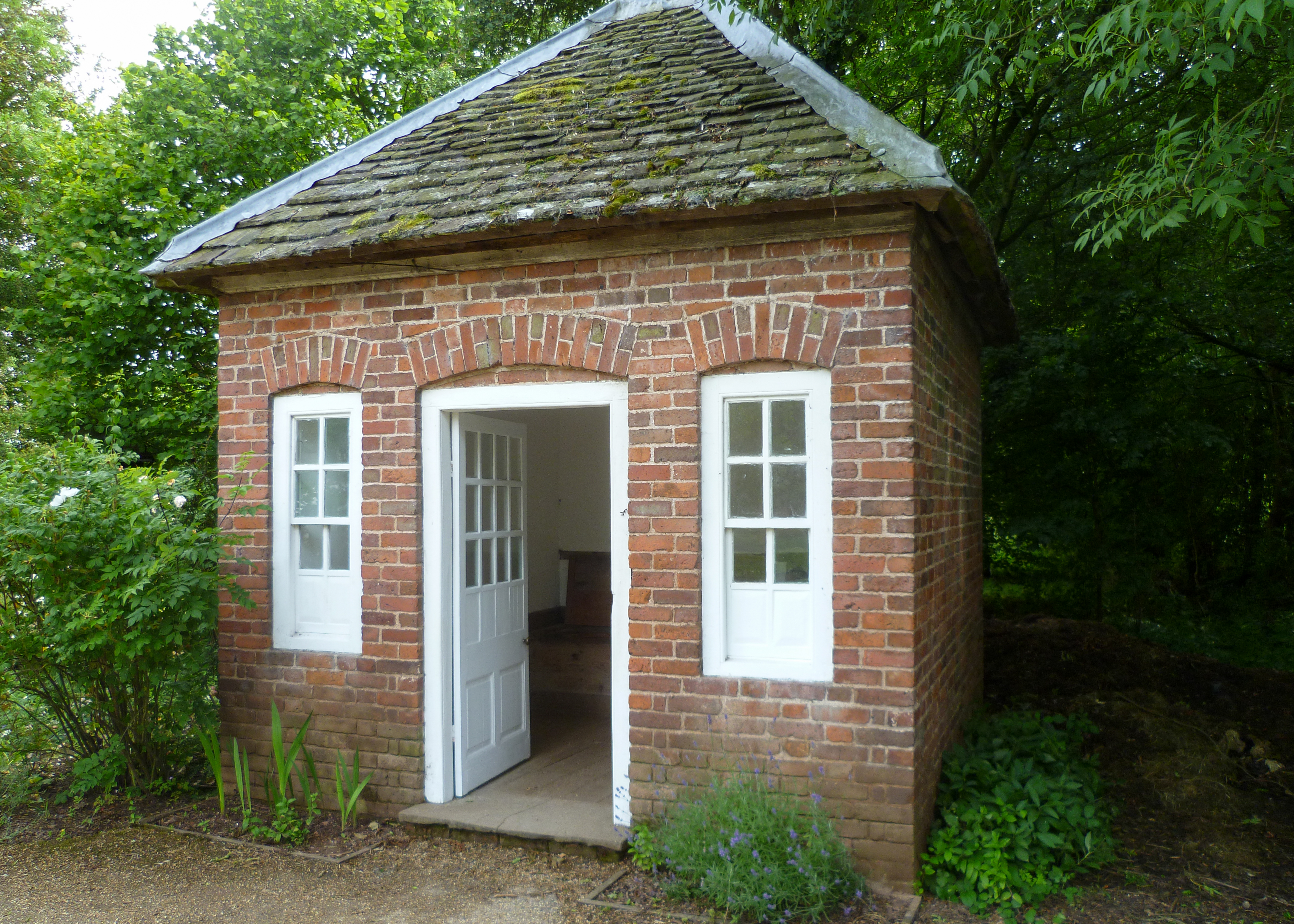 The early 18th century privy from Townsend House, Leominster. Preserved in the Avoncroft Museum of Historic Buildings, Worcestershire.